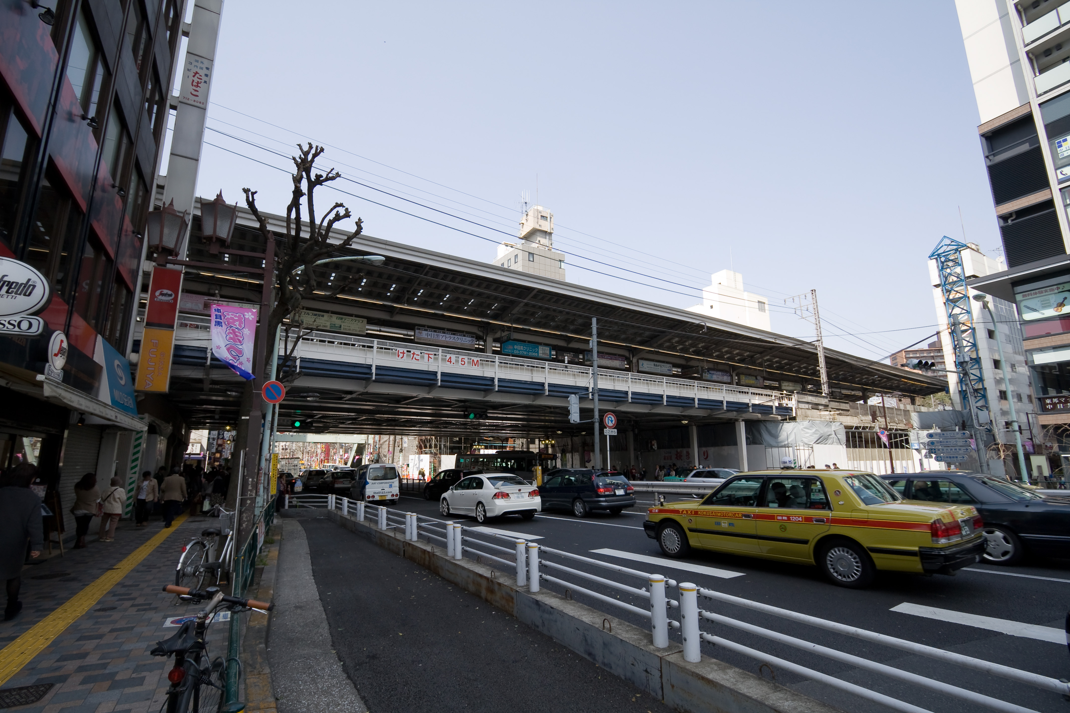 Nakameguro Station